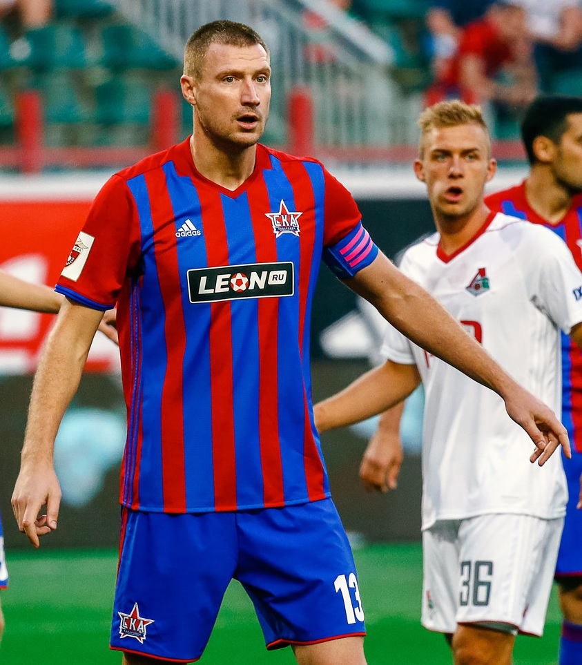 Aleksandr Dimidko with FC SKA-Khabarovsk in a game against FC Lokomotiv Moscow.